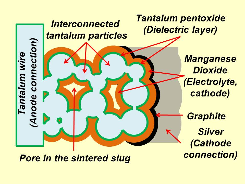 cross section of a sintered tantalum MnO2 capacitor